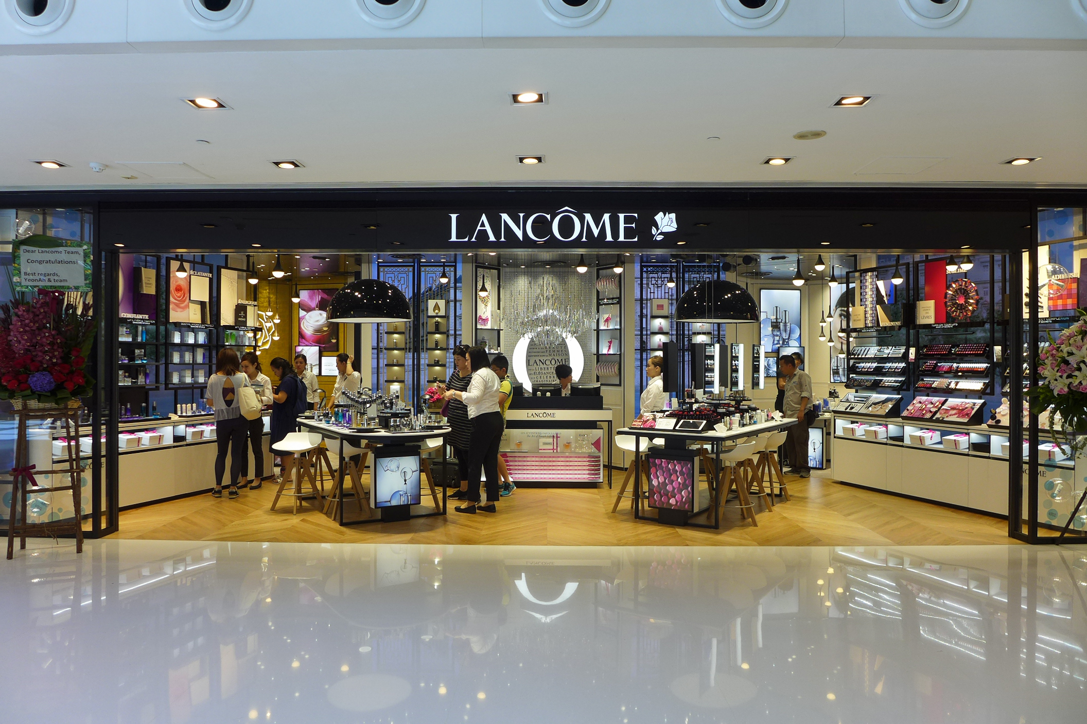 Lancôme in Shatin New Town Plaza